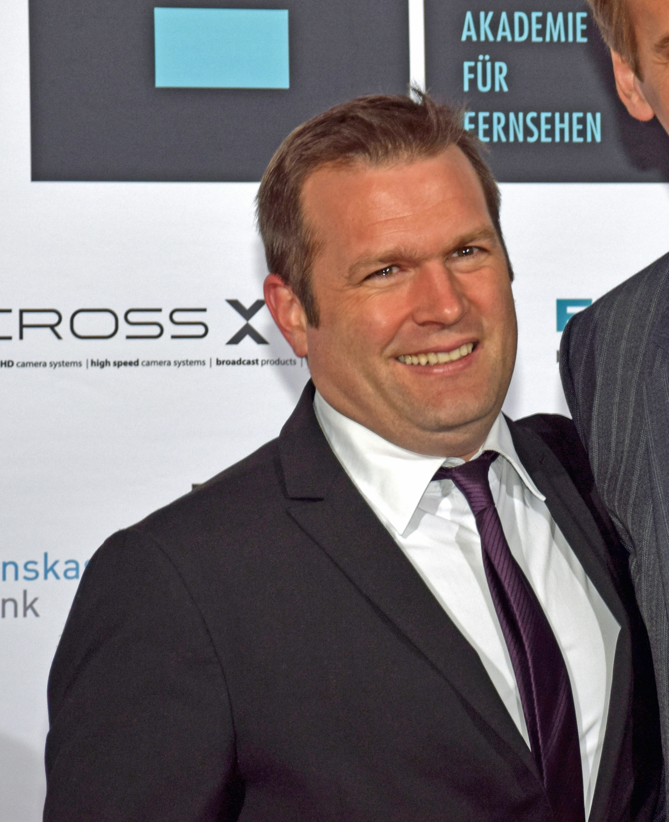 Raoul Reinert (Produzent) Deutsche Akademie für Fernsehen - Symposium und Preisverleihung 2015 in Köln